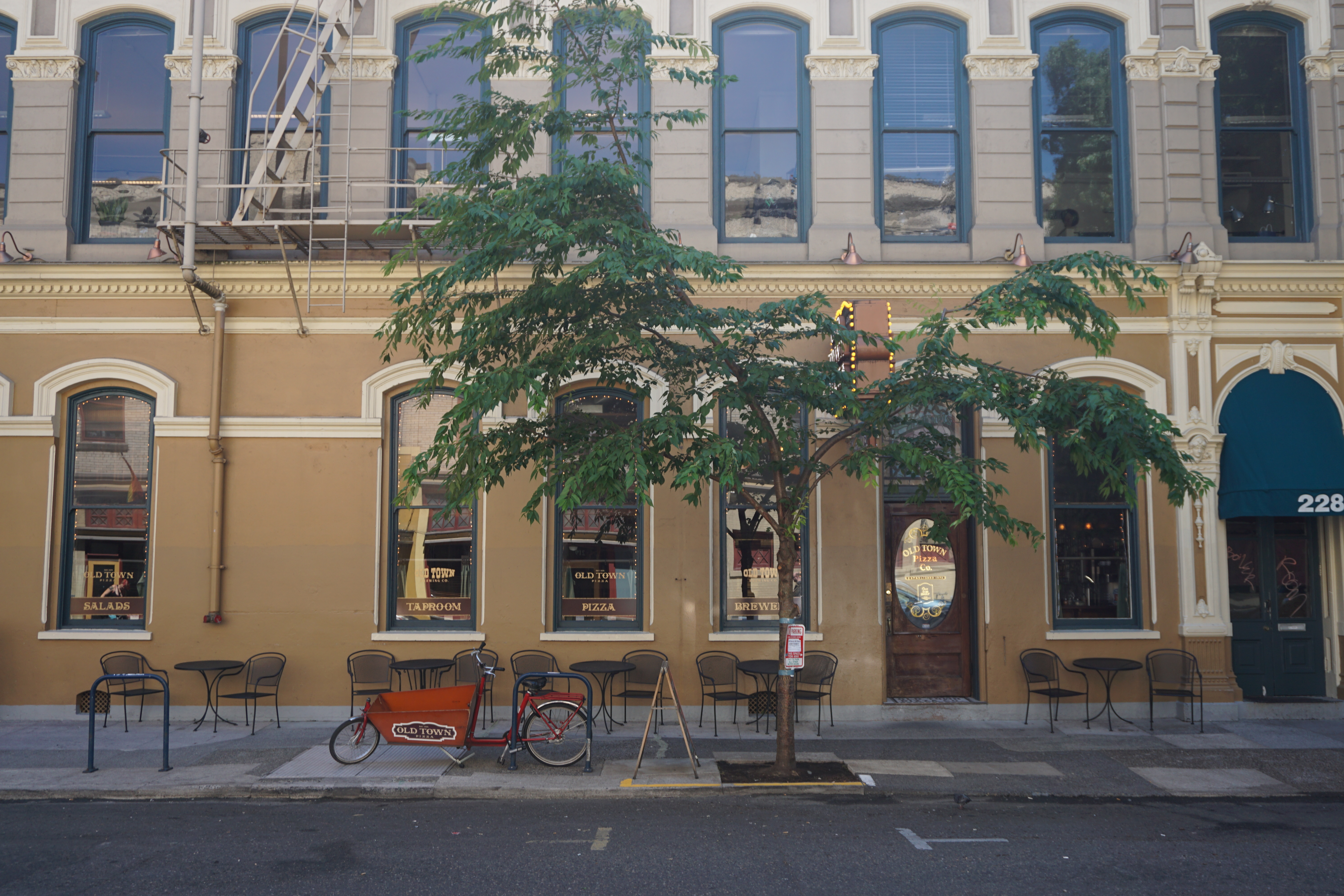 Old Town Pizza & Brewing in Portland, Oregon (United States).